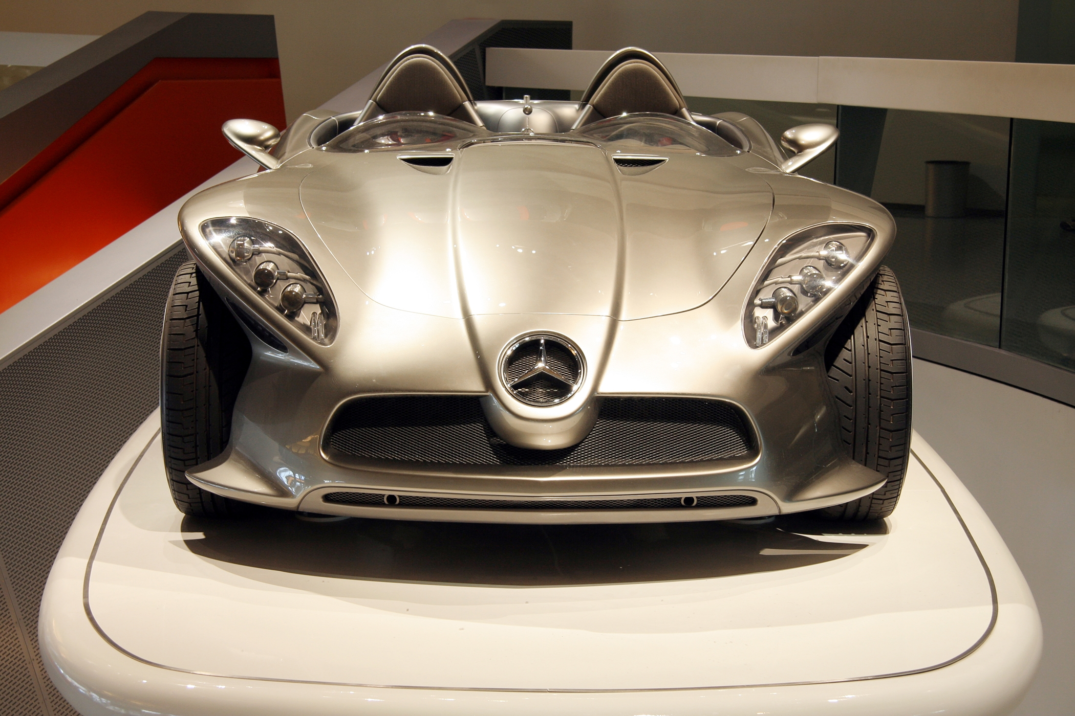 Mercedes-Benz F400 "Carving" Prototype